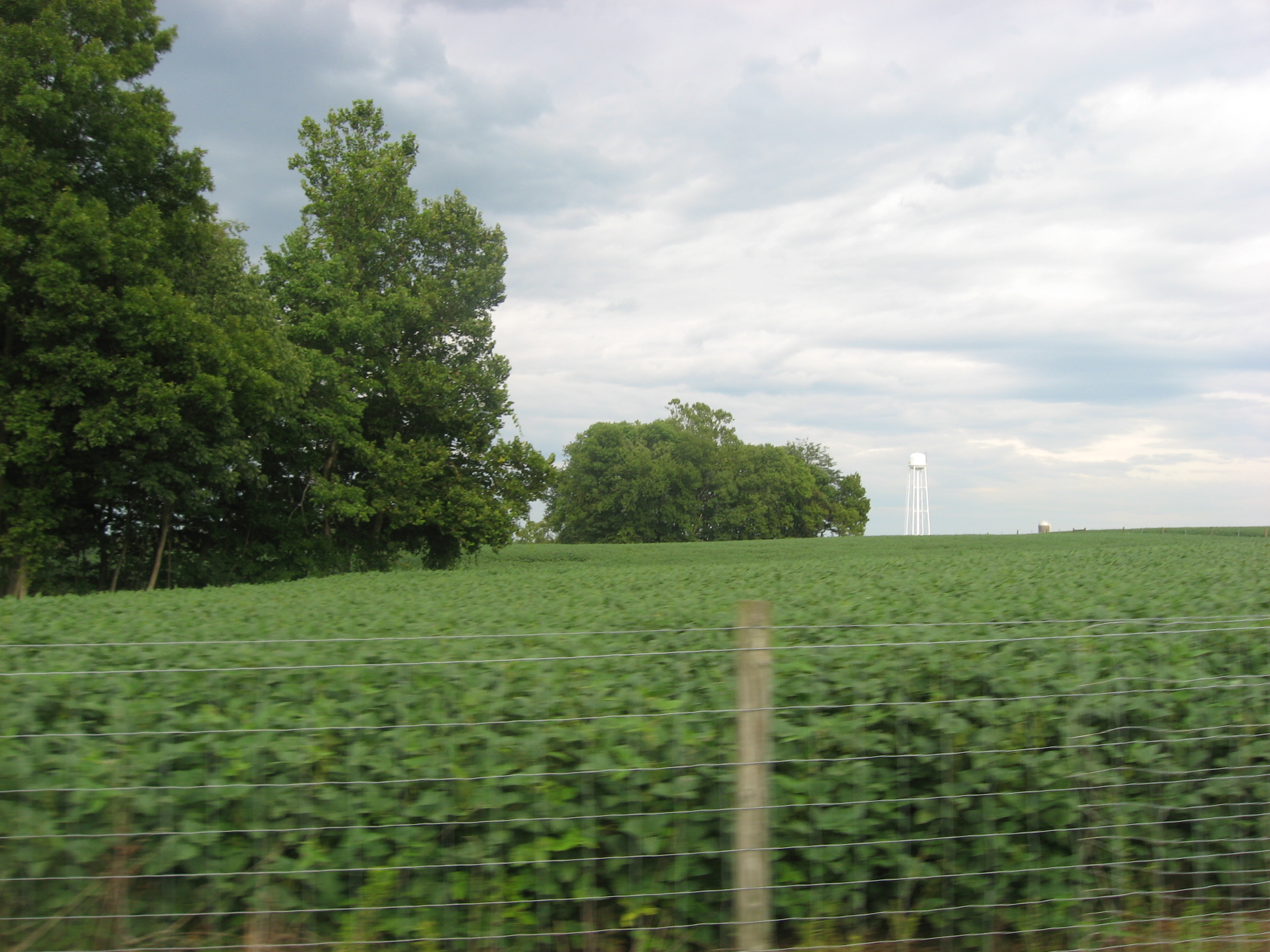 Looking over the fields of the Henry Martin Farm from Pisgah Ridge Road, north of Ripley in Union Township, Brown County, Ohio, United States. The farm is listed on the National Register of Historic Places.